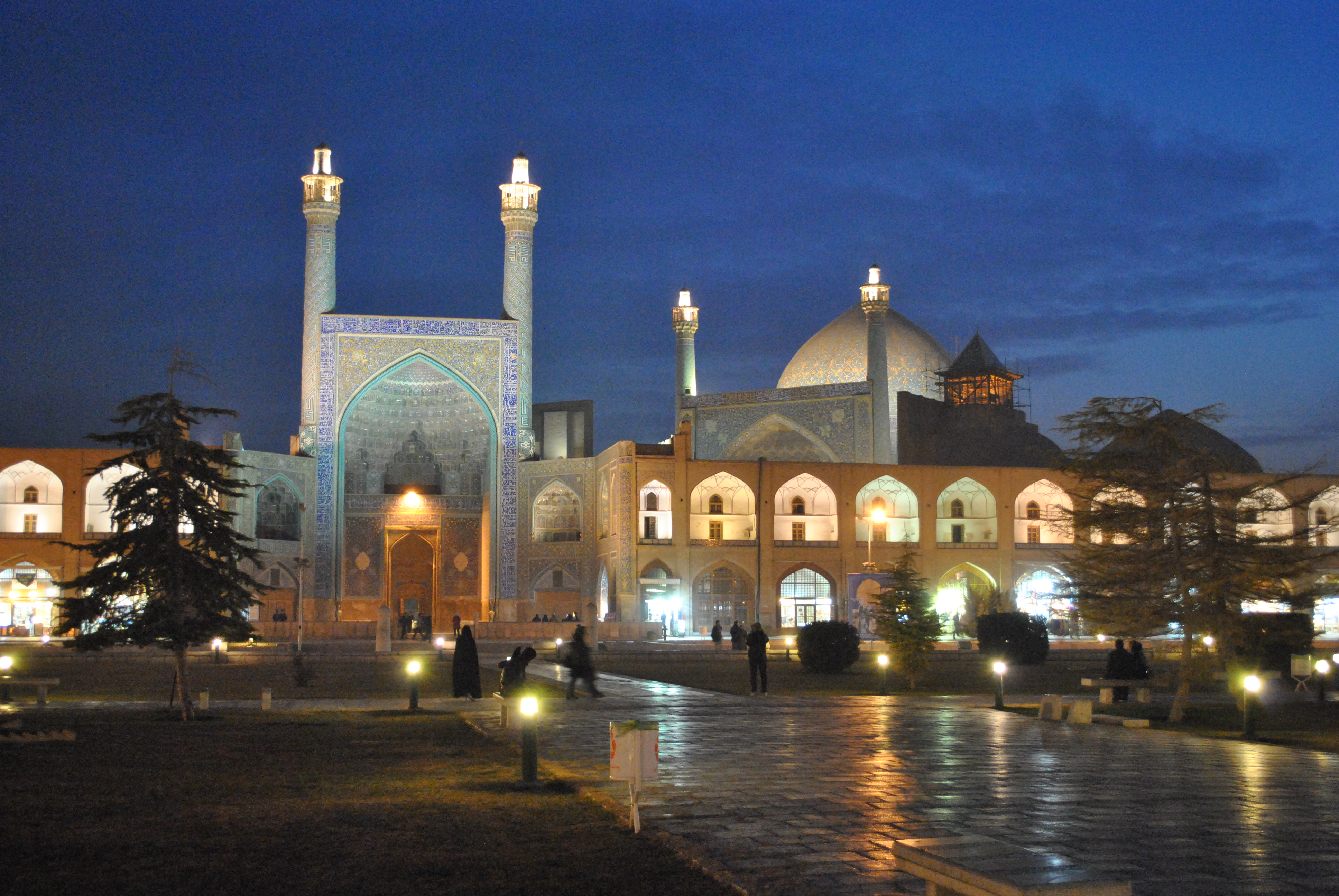 Own work